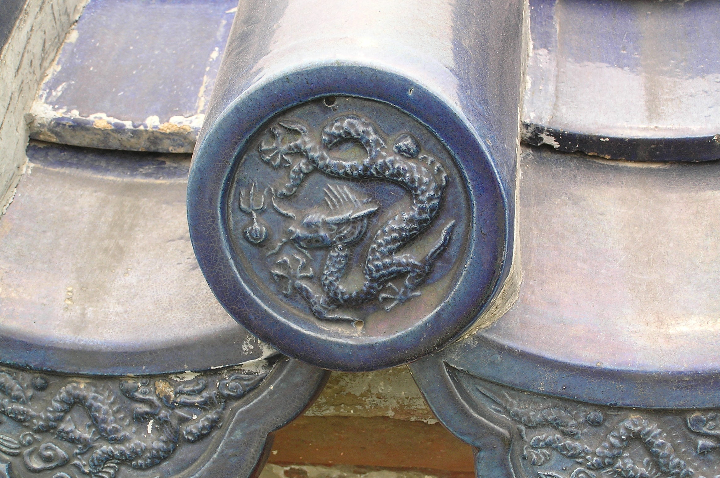 Traditional Chinese roof tile detail at the Temple of Heaven in Beijing (China).jpg Author: Mr. Tickle Date: July, 2005